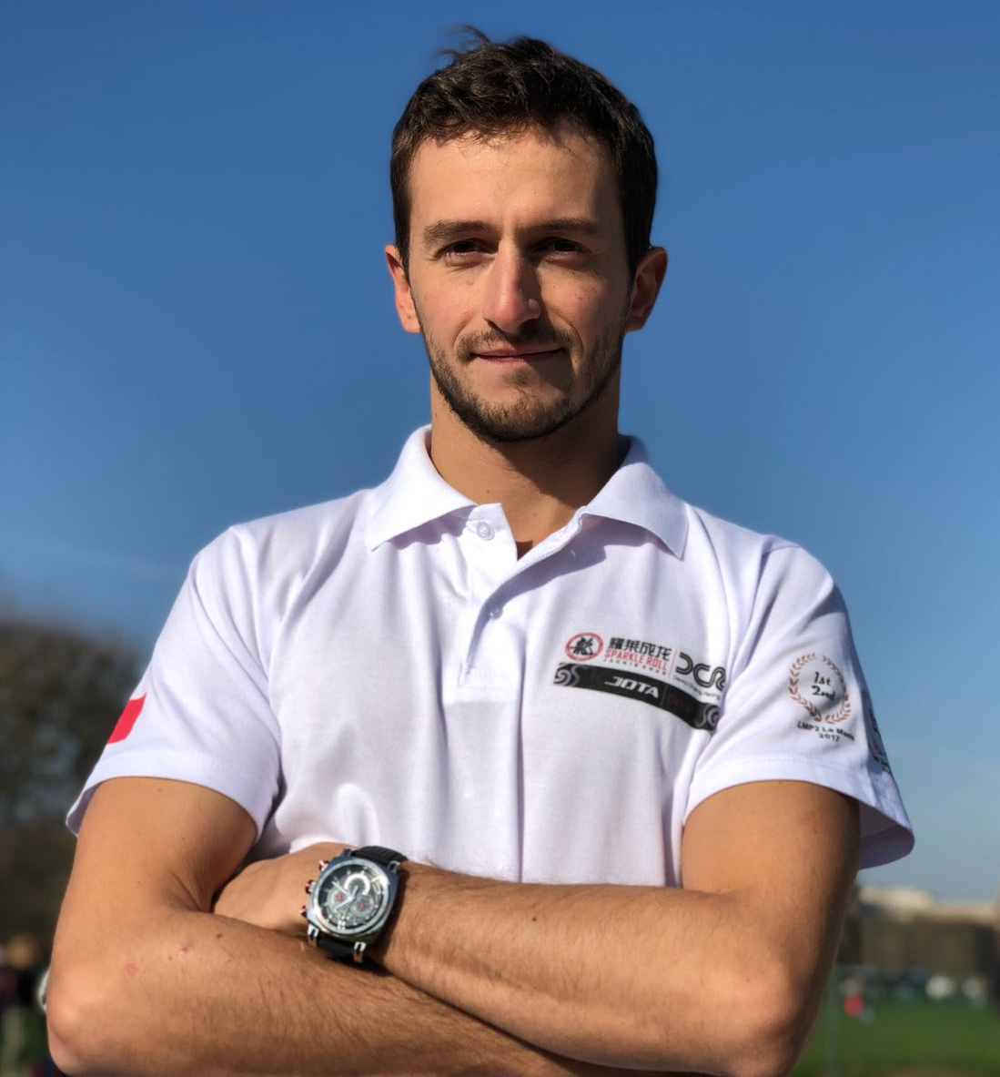 Racing driver Stephane Richelmi